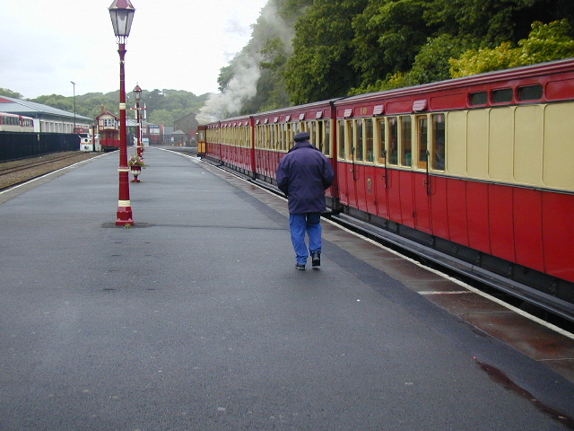 Isle of Man Steam Railway, Douglas Terminus.